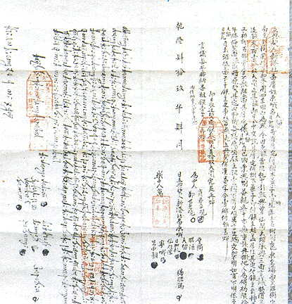 Xingang Writing (新港文書), a kind of land contract written by Plain Aborigine (平埔族) of Xingang Tribe (新港社), Taiwan, between later half of 17 century and first half of 19 century.